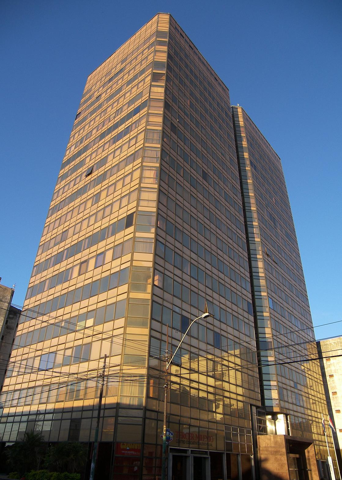 Edificio Ayfra en la zona de negocios de Asunción, la capital de Paraguay.